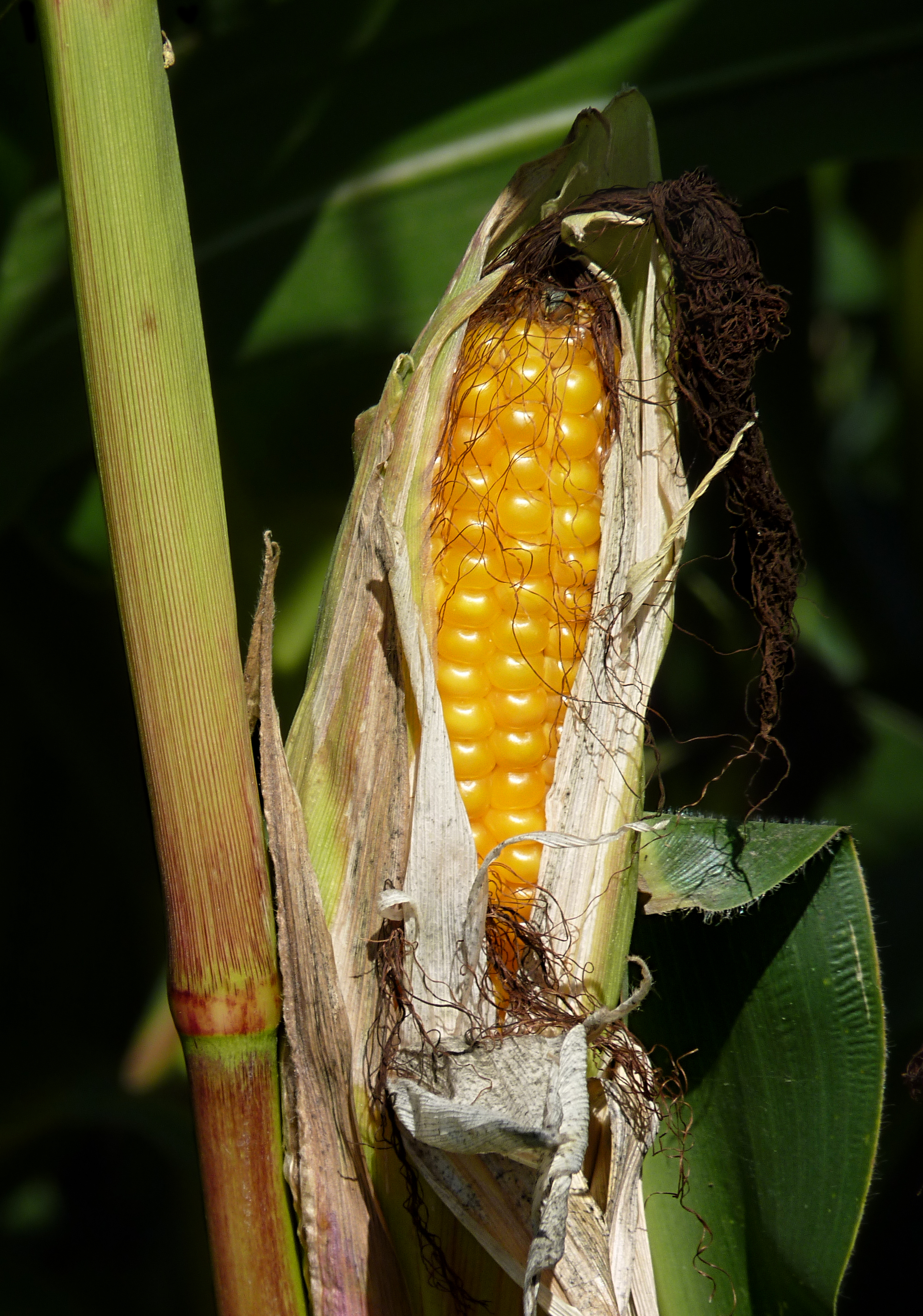 Ear of corn (maize) before the harvest, picture taken in France.